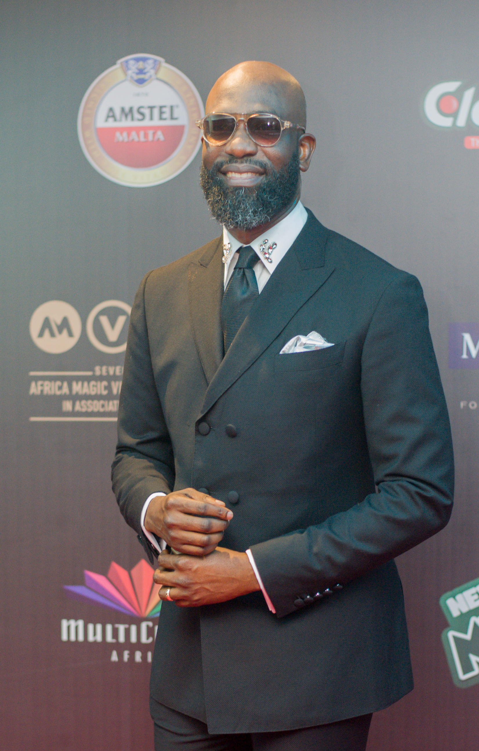 Mai Atafo at AMVCA 2020